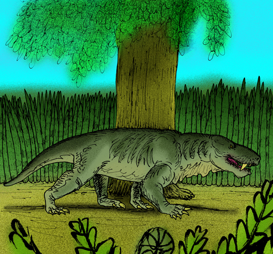 Reconstruction of the gorgonopsid therapsid, Ruhuhucerberus terror, of Permian Tanzania